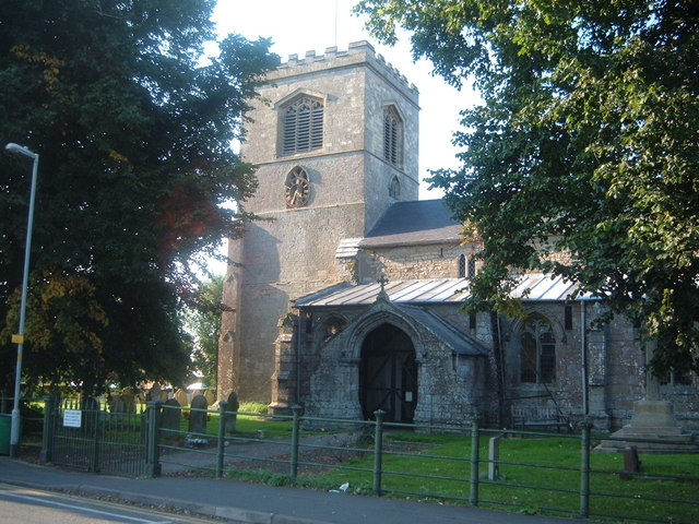 West tower and south porch of the parish church of SS Peter and Paul, Ingoldmells, Lincolnshire